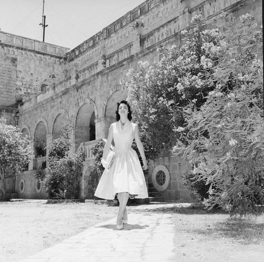 Picture of Miriam Weingarten in Jerusalem 1958